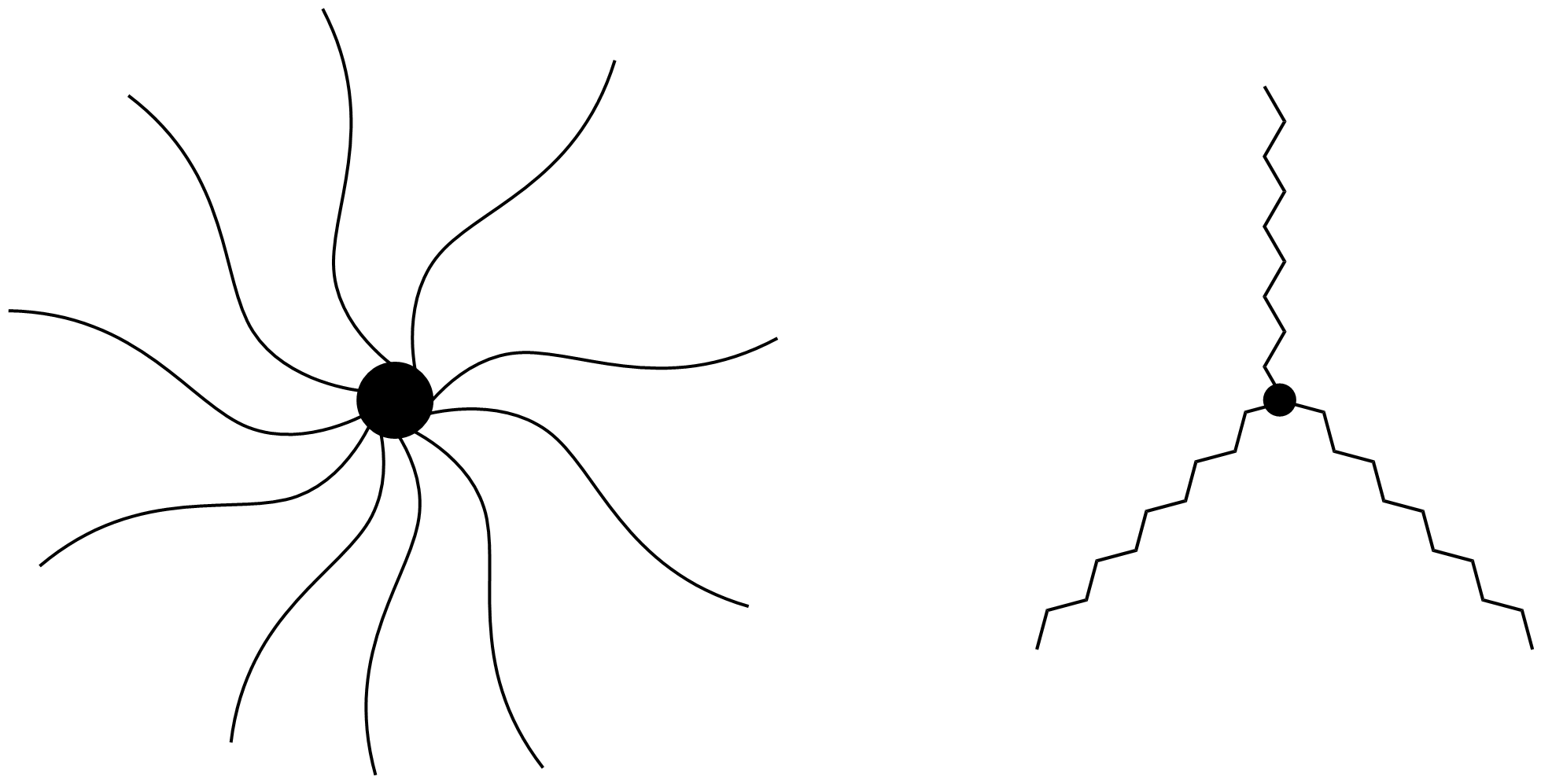 Different representations of star shaped polymers